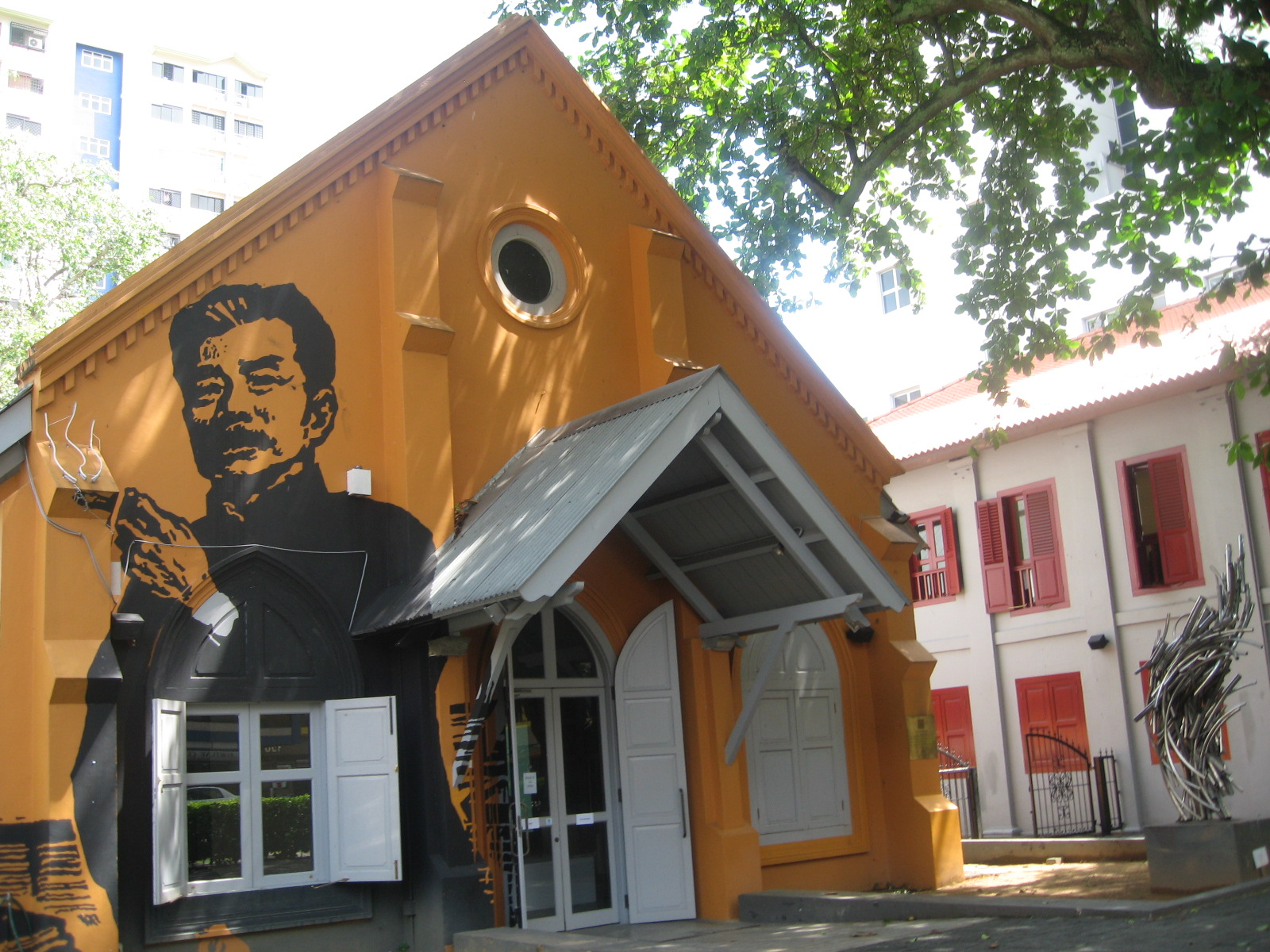 A mural of Lu Xun on a wall of Sculpture Square on Middle Road, Singapore. Taken by Terence Ong in June 2006.